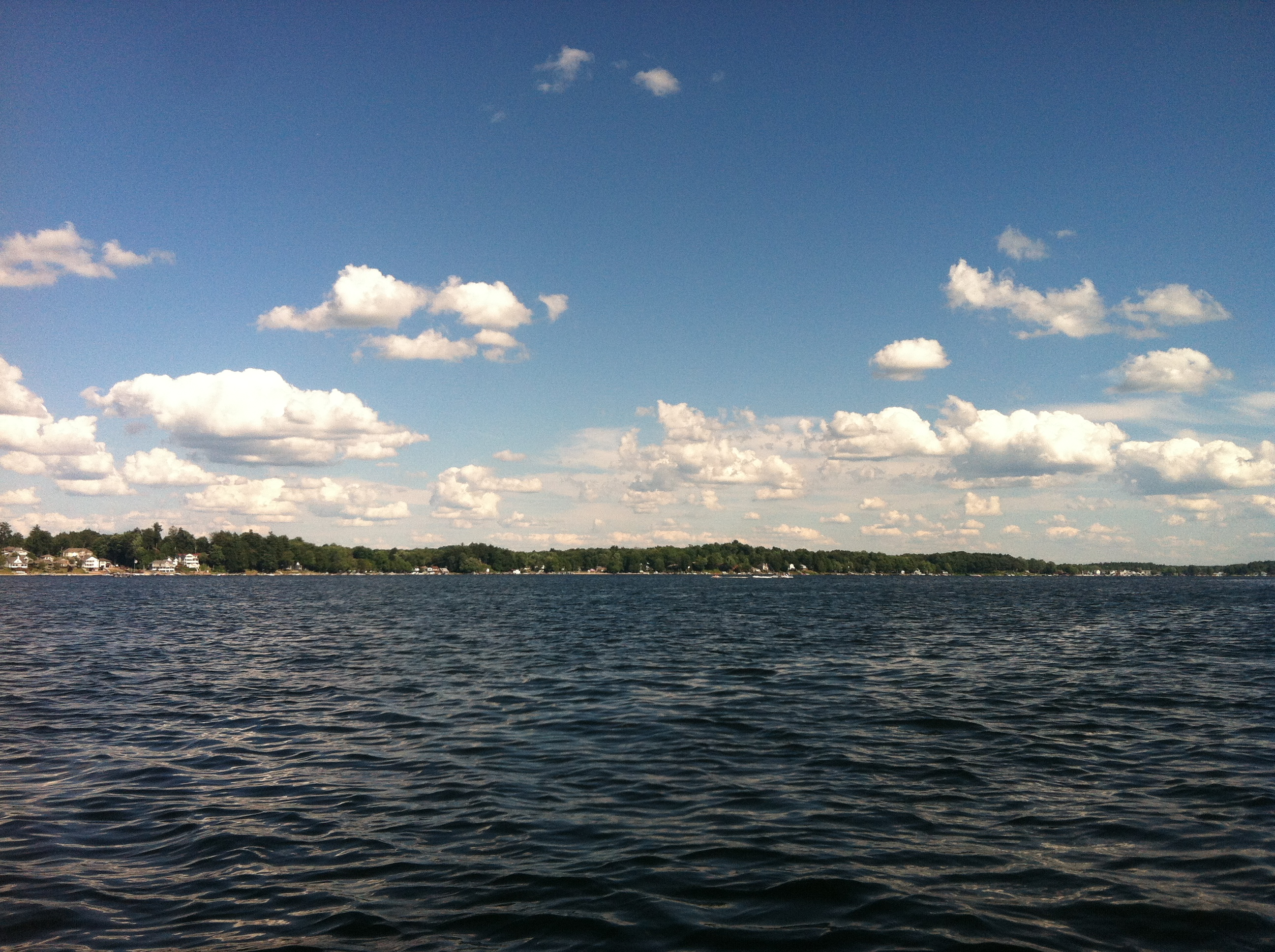 Conneaut Lake as viewed from the northwest shore.